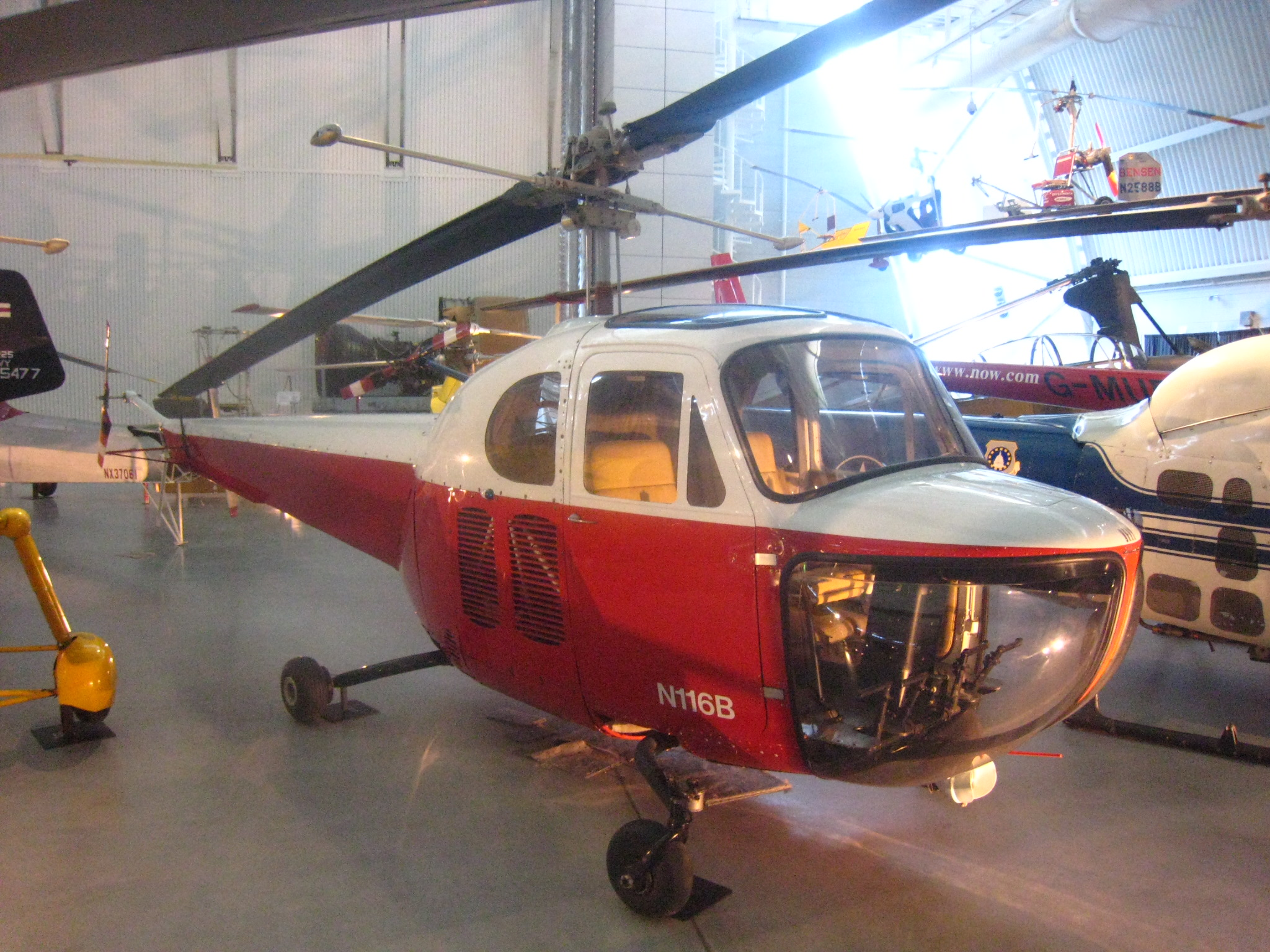 Bell 47B at the National Air & Space Museum.